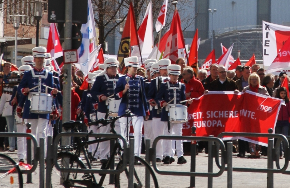 Image from the 1st of May (Labour Day) celebrations in Kiel, northern Germany. In the background is the main employer of the city - the HDW shipyard.